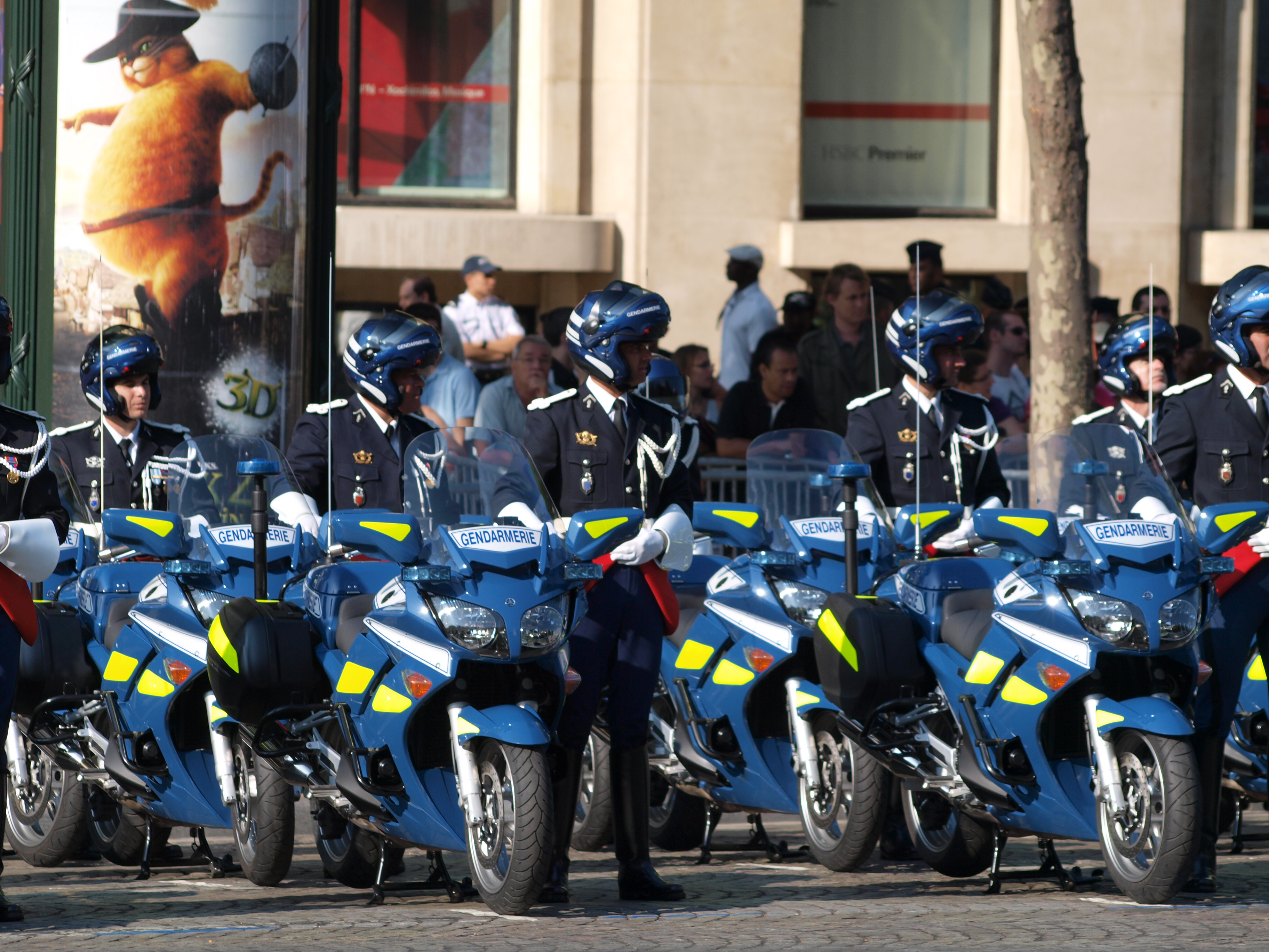 Yamaha Gendarmerie motorcycles